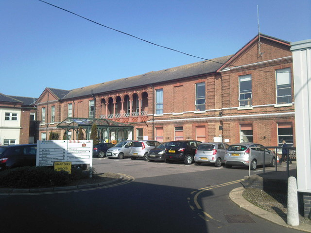 Lowestoft Hospital, under threat of demolition